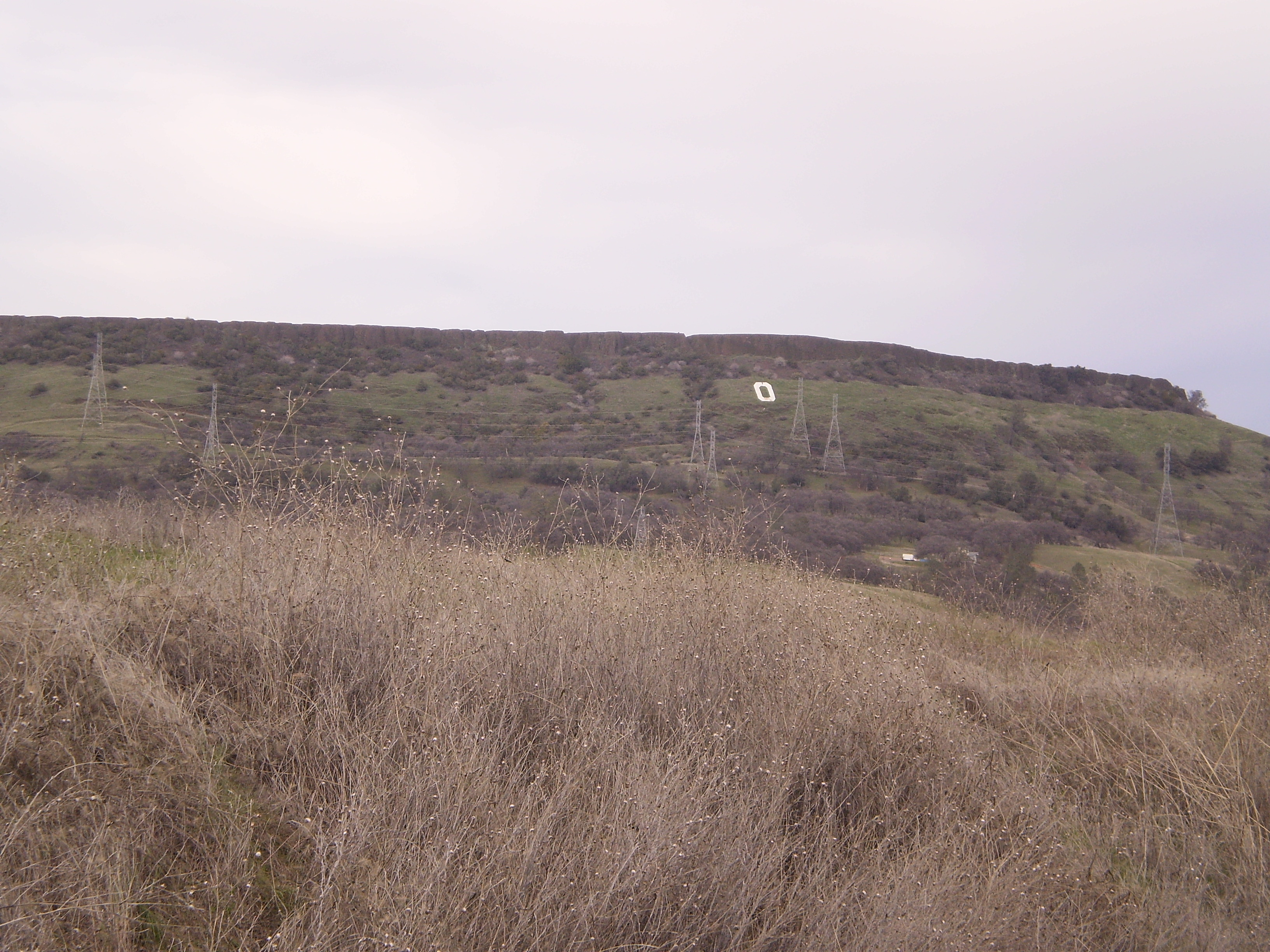 South Table Mountain — in Butte County, California. With a white "O" for the nearby town of Oroville.